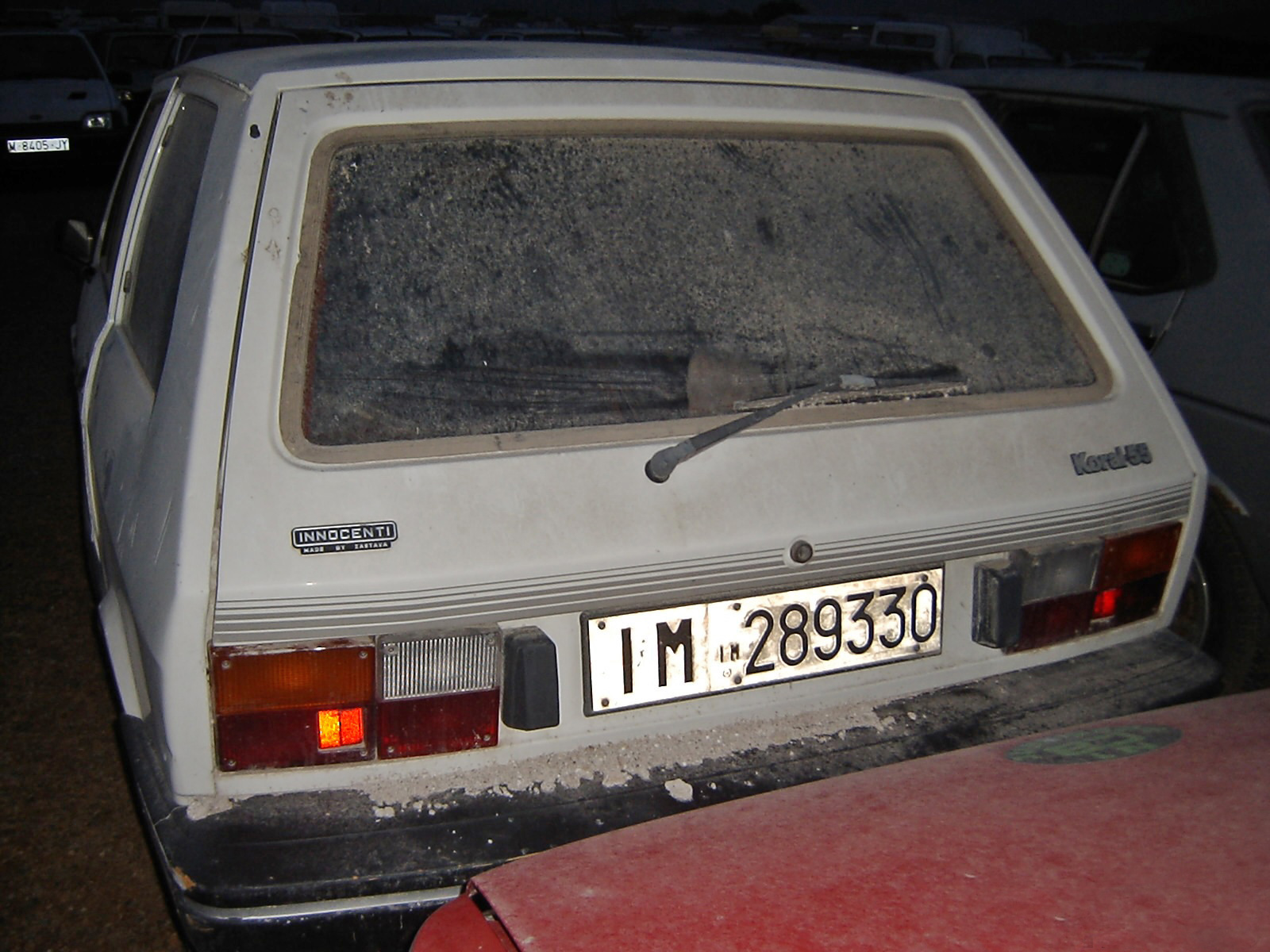 Innocenti-badged Zastava built Koral 55 from 1987.